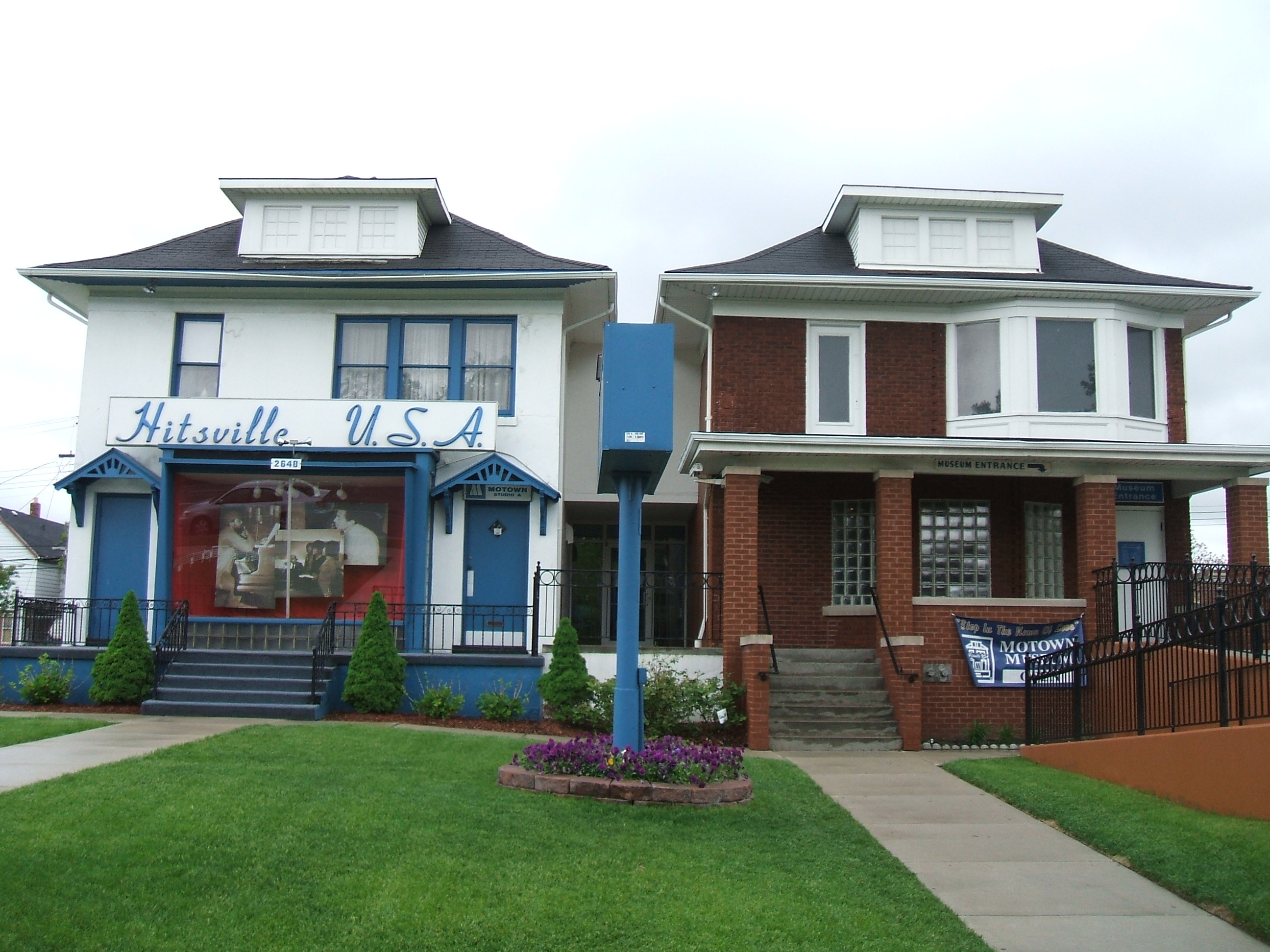 in front of motown studios, detroit usa